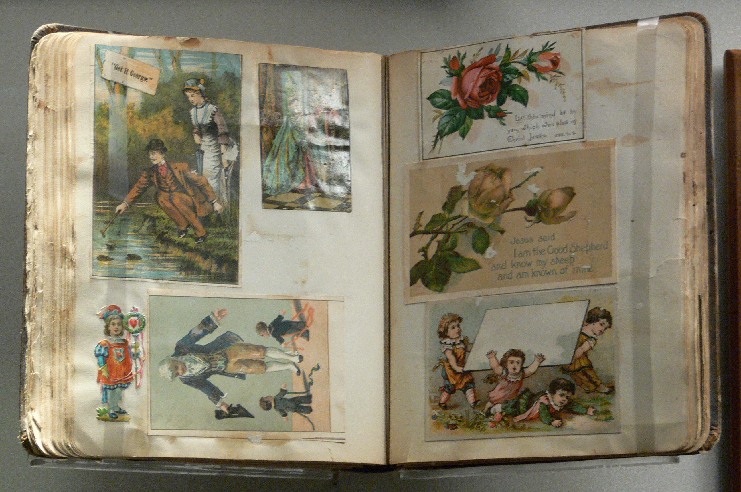 Scrapbook (19th or early 20th century?) The Women's Museum, Dallas, Texas